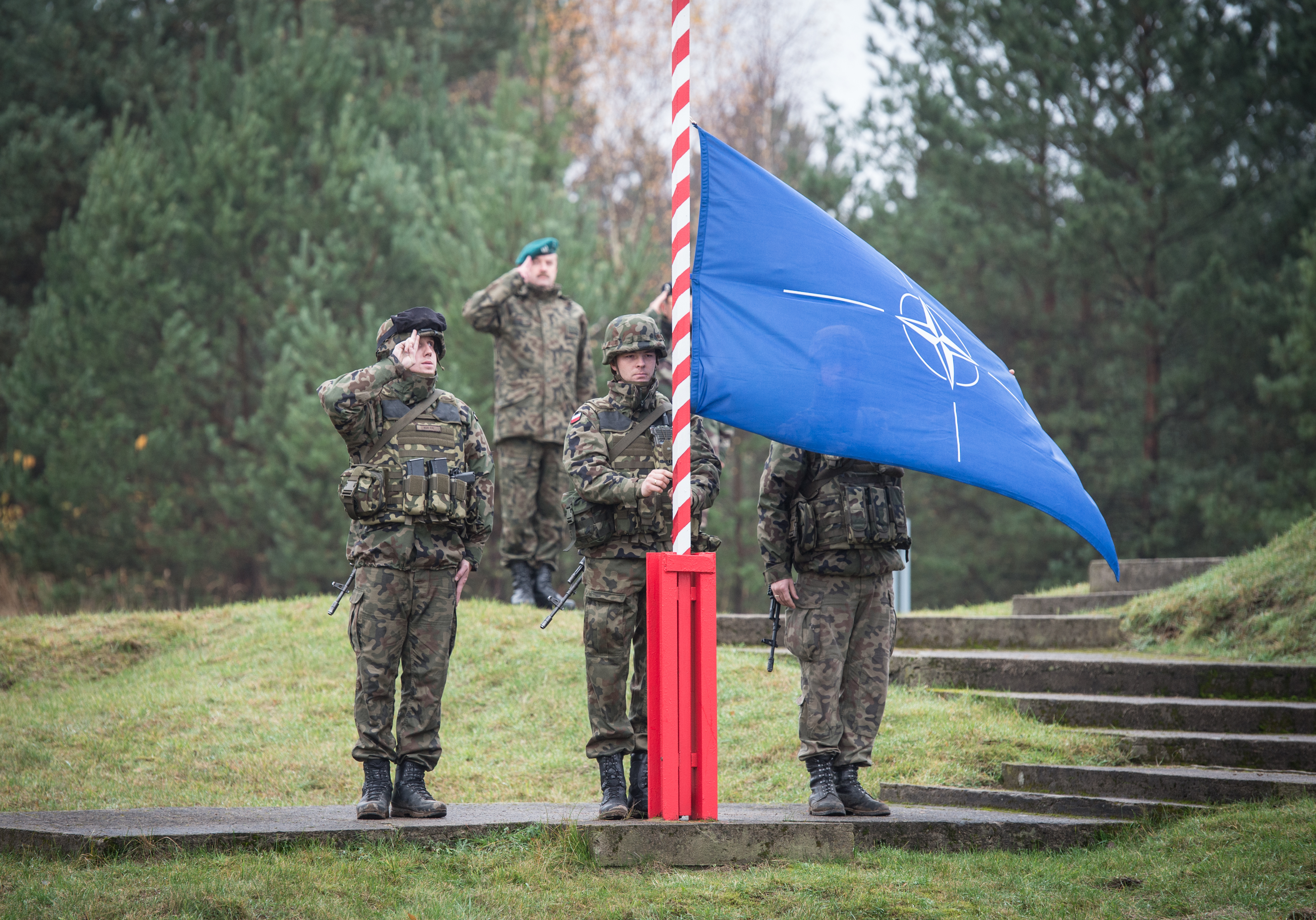 The NATO flag is raised during the Opening Ceremony for Ex STEADFAST JAZZ at the Drawsko Pomorskie Training Area, Poland, on Nov. 3, 2013. Exercise Steadfast Jazz 2013 is taking place from 1-9 November in a number of Alliance nations including the Baltic States and Poland. The purpose of the exercise is to train and test the NATO Response Force, a highly ready and technologically advanced multinational force made up of land, air, maritime and special forces components that the Alliance can deploy quickly wherever needed. The Steadfast series of exercises are part of NATO’s efforts to maintain connected and interoperable forces at a high-level of readiness. (NATO photo/SSgt Ian Houlding GBR Army)